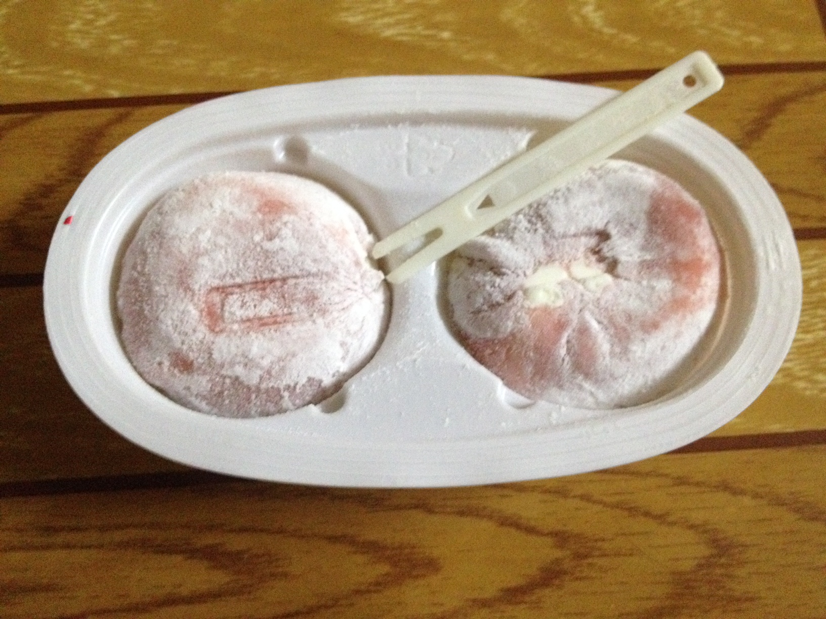 Mochi Ice